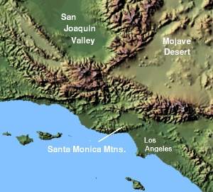 The western Transverse Ranges, with the Santa Monica Mountains indicated, in Southern California. ( © 2004 Matthew Trump )